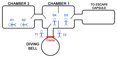 Overhead diagram of the diving bell compression chamber in the Byford Dolphin at the moment that the accident occurred. D1 – D4 are the divers; T1 and T2 are the dive tenders.